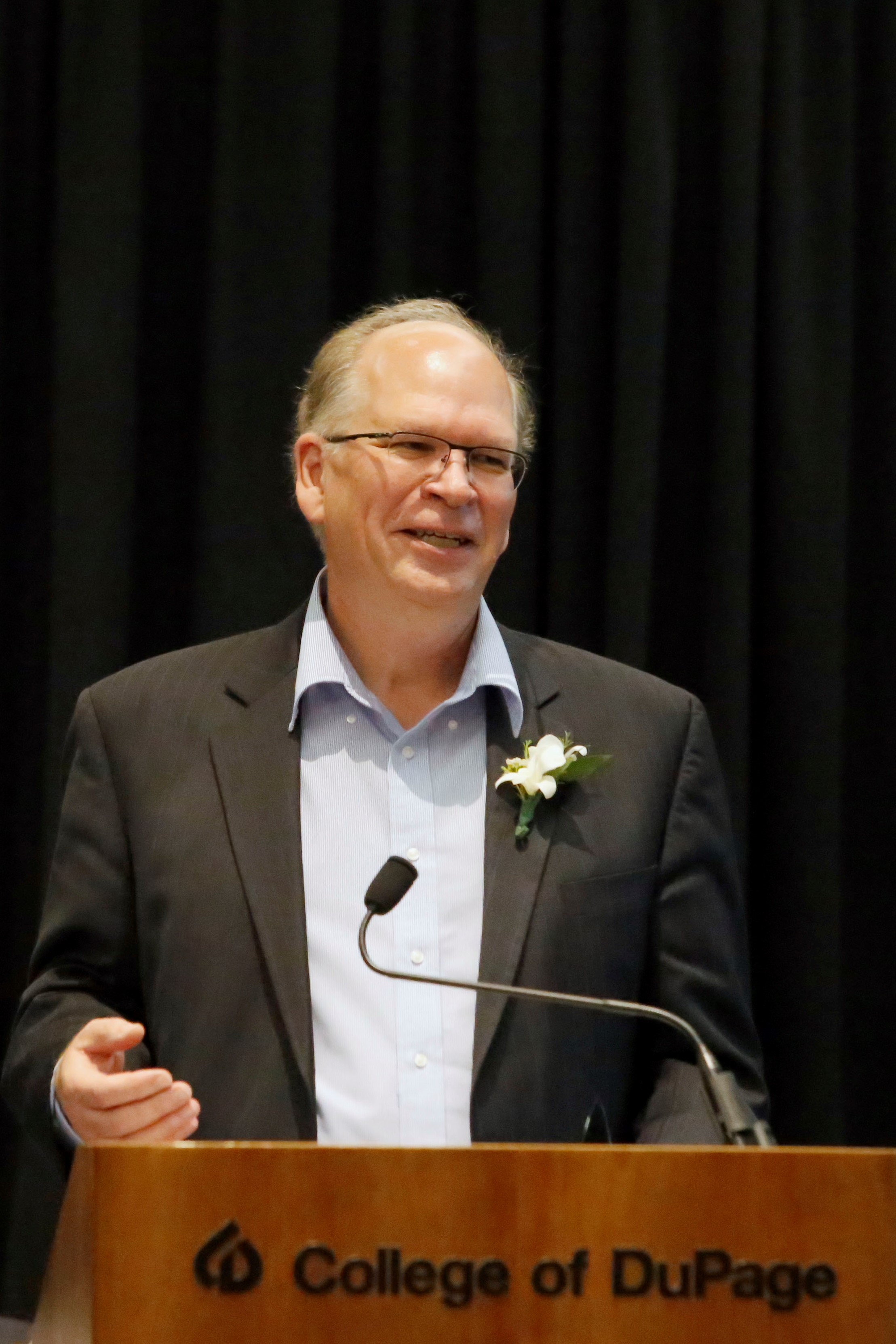 Portait of Andrew J. Ouderkirk